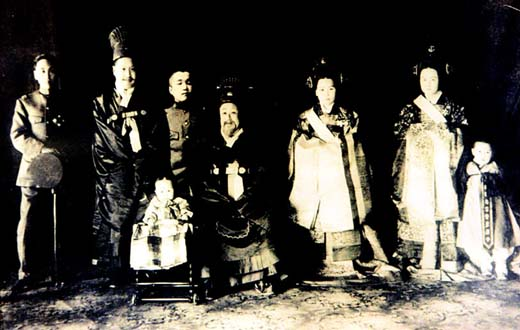 李氏朝鲜国王高宗及其家人 I can't find an online source for this, but the dynasty ended in 1910, so it should be PD-US